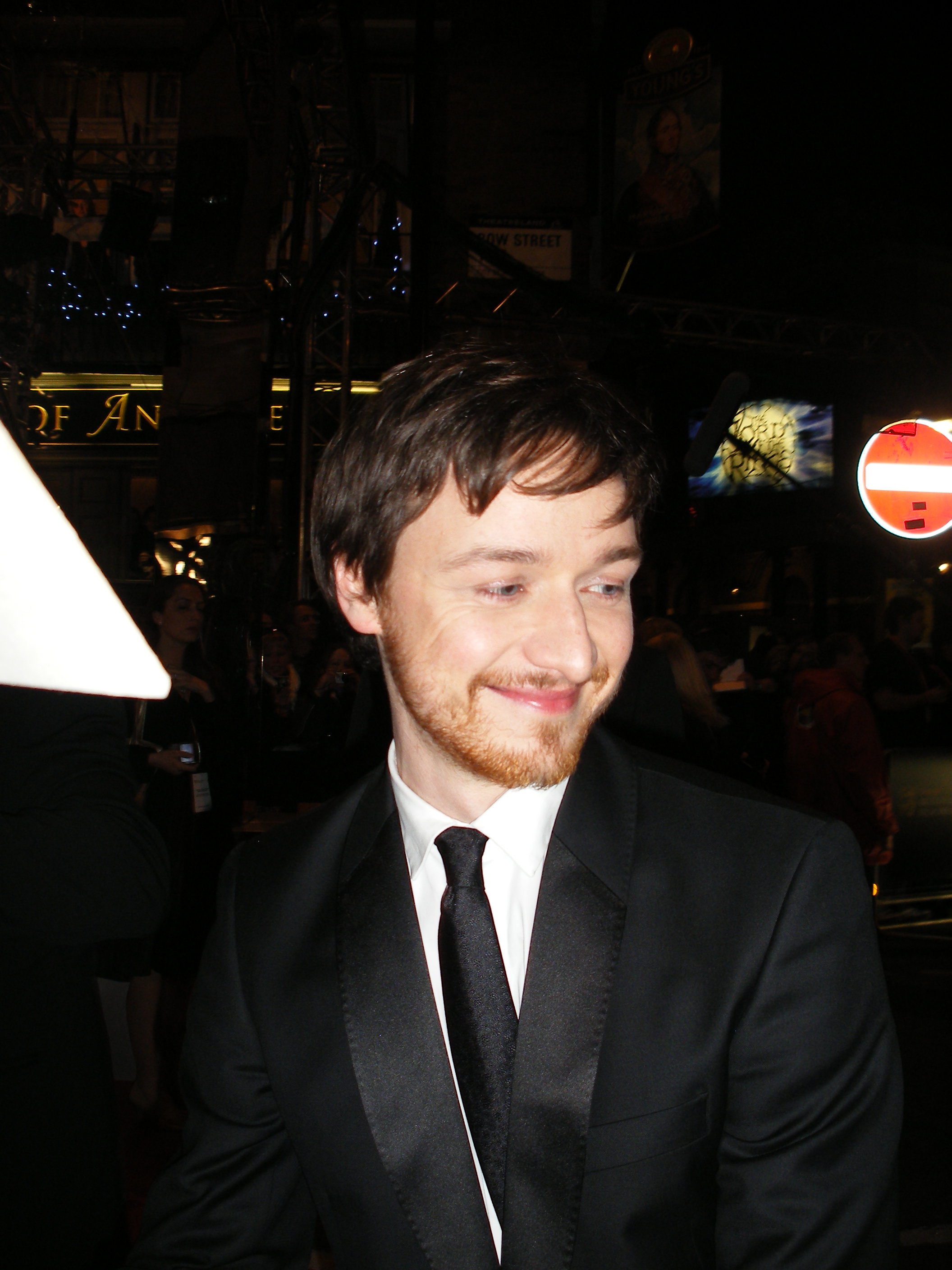 James McAvoy at 2008 BAFTA Awards' red carpet